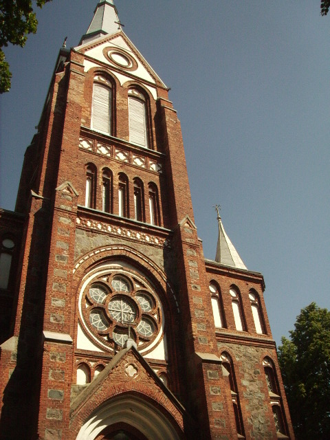 Church in Akmenė